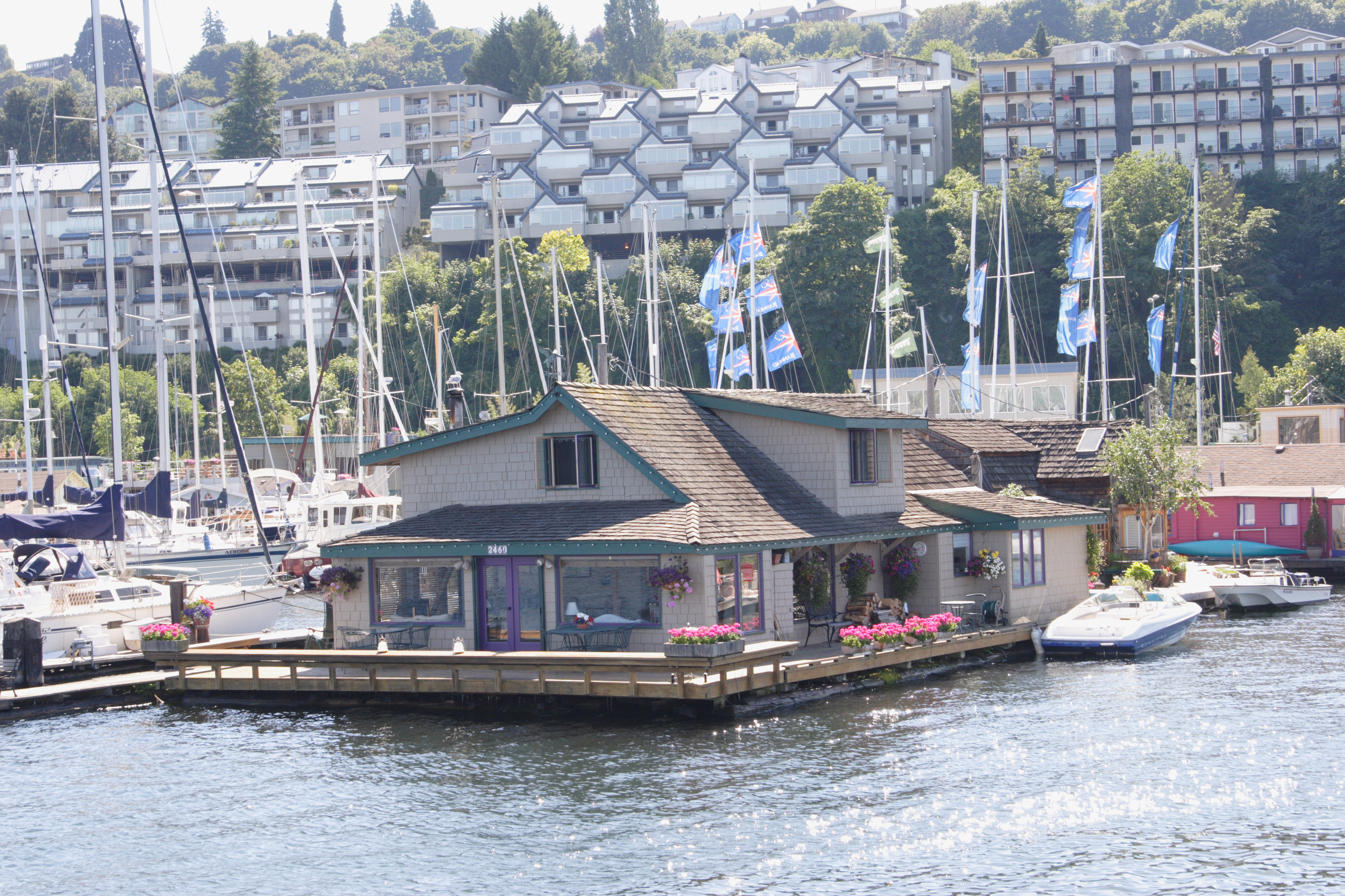 Used for the filming of the movie